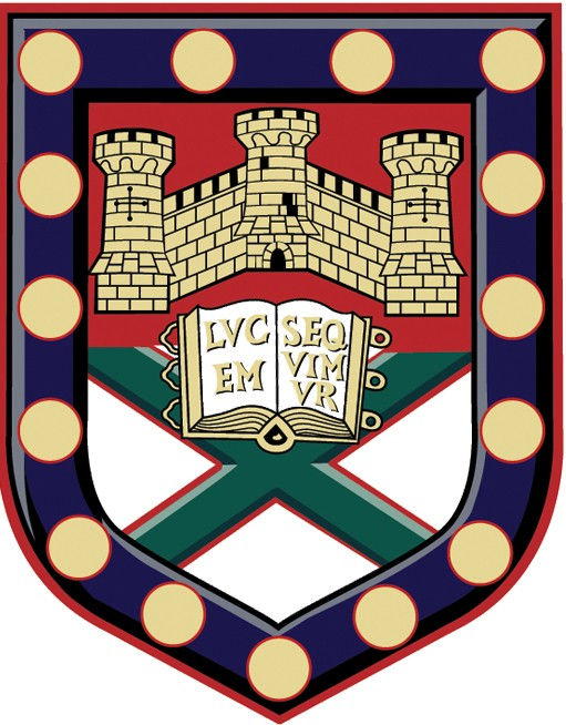 Exeposé Logo 2012 - present